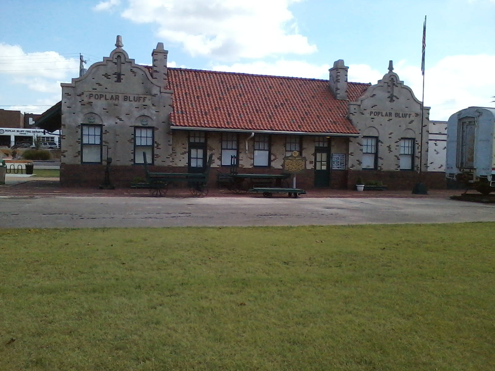 Frisco depot